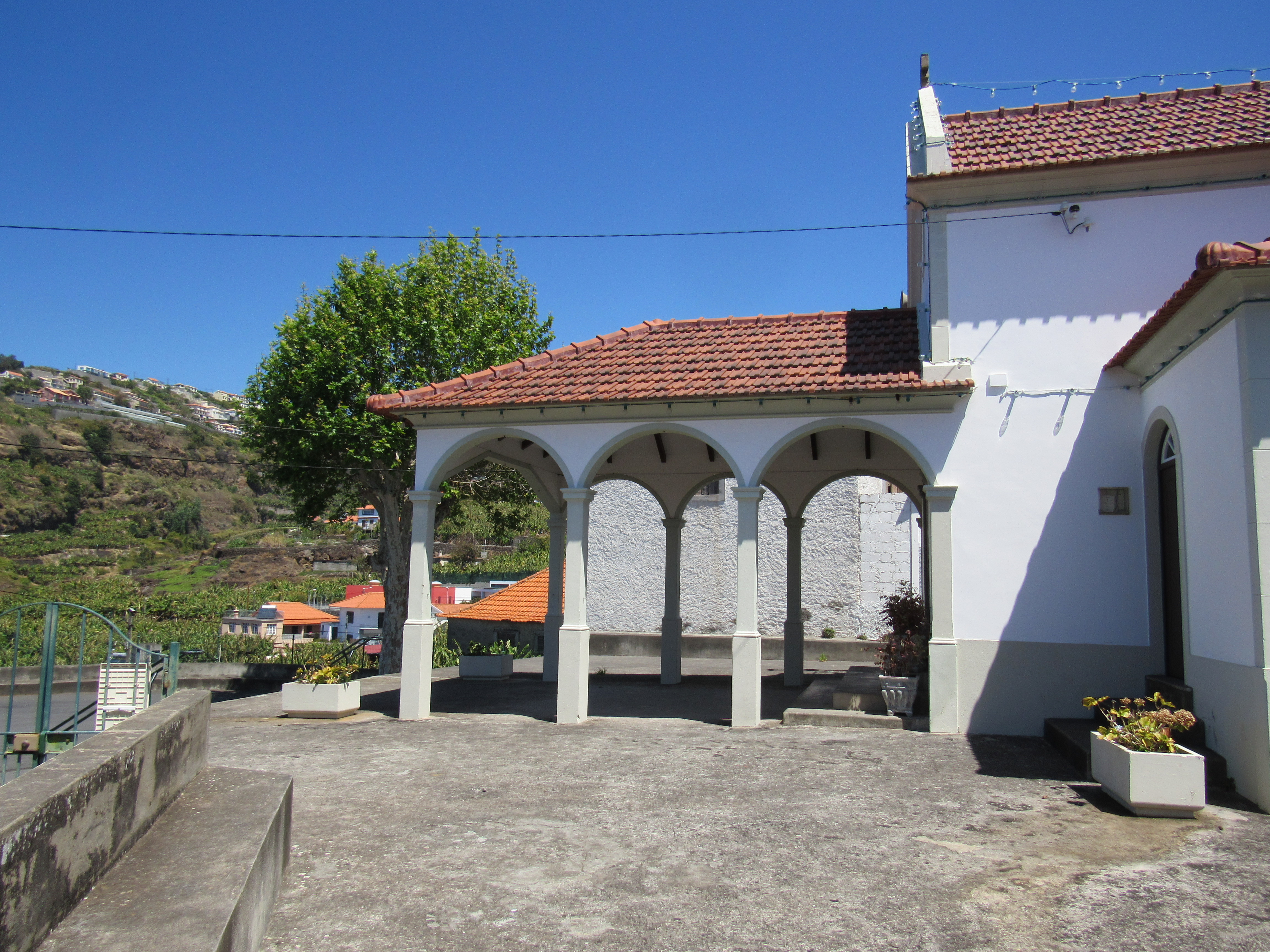 Capela de Nossa Senhora do Livramento situada no sítio do Livramento - Ponta do Sol